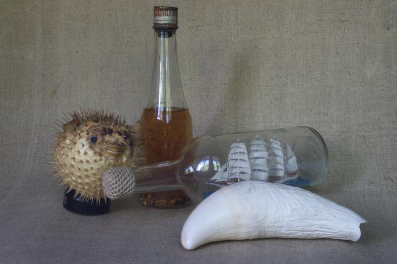 Sailors' souvenirs in the collections of Rauma maritime museum